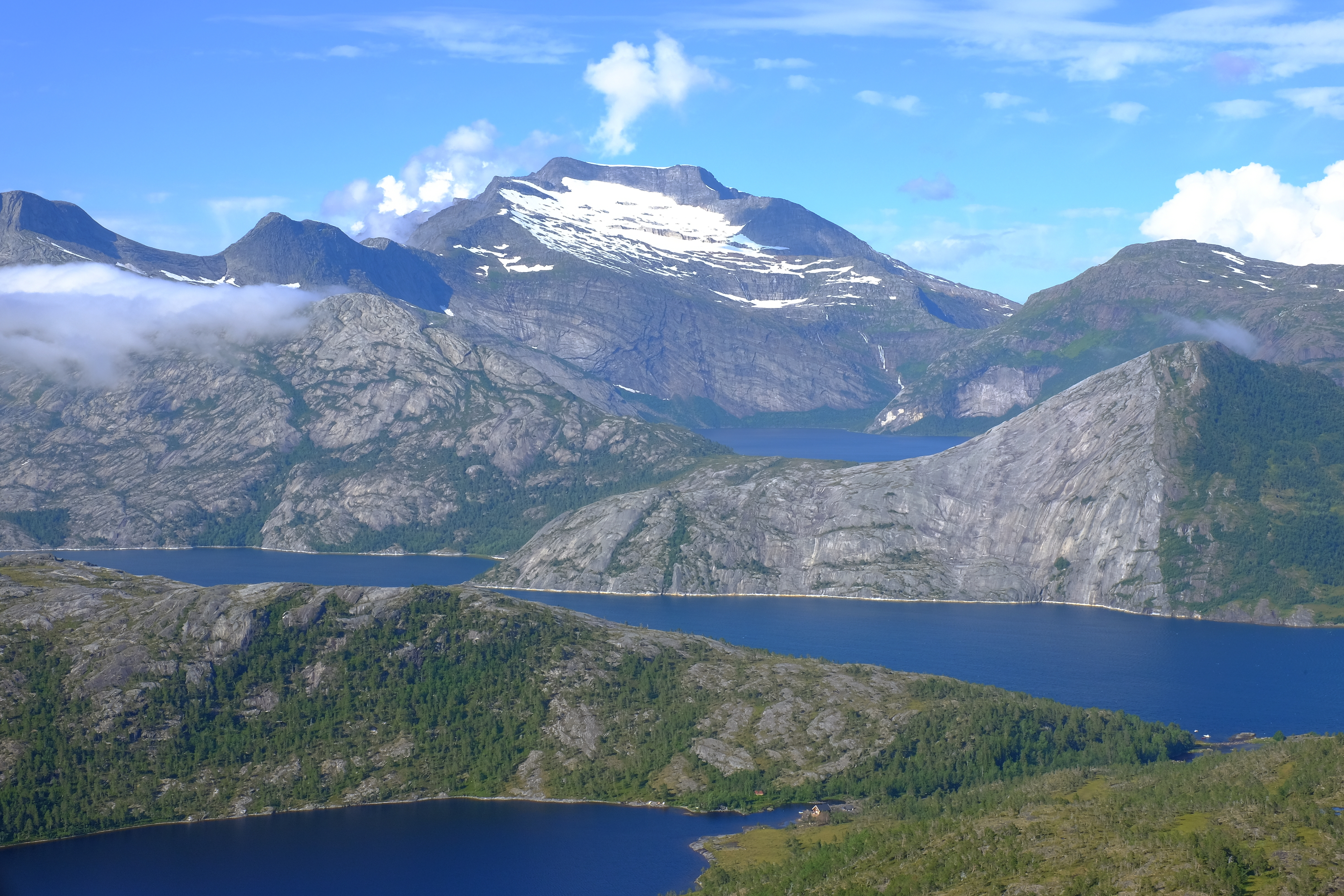 Helldalisen is a mountain, or actually a glacier up to the top of the mountain on the border between Steigen and Sørfold municipalities in Nordland. Picture from the south showing Trollvatnet lake under the peak and Sagfjorden below. The area is known for its hundreds of mountain peaks and many fjords.